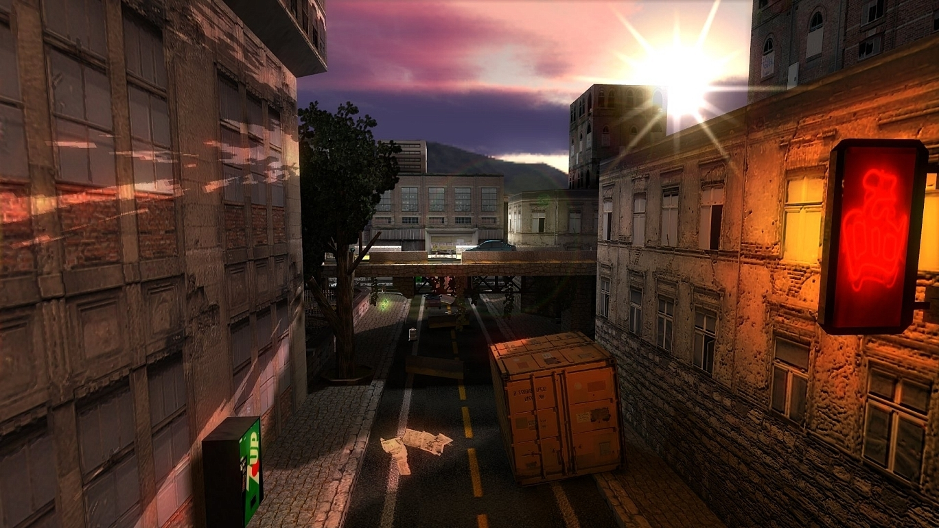 Screenshot from CodeRED: Alien Arena